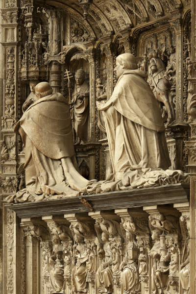 Cathédrale Notre-Dame; Rouen; Normandie, Seine-Maritime, France; ref: PM_063184_F_Rouen; ; Chapelle de la Vierge; Photographer: Paul M.R. Maeyaert; © Paul M.R. Maeyaert; ; Cultural heritage; Cultural heritage/Cathedral; Europe/France/Rouen; LoCloud selectie